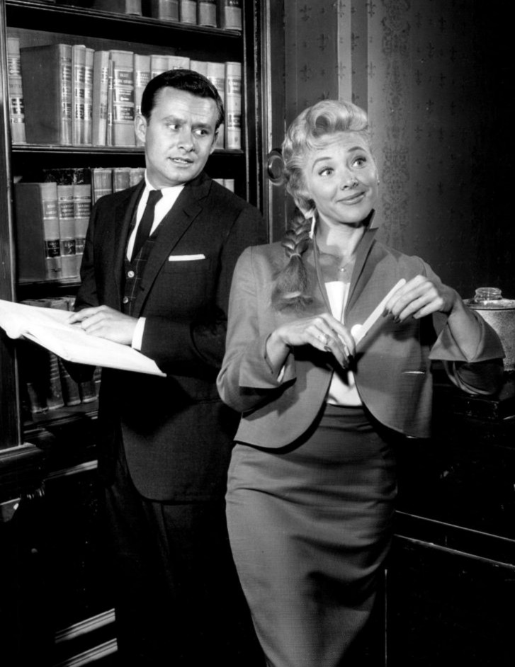 Photo of Roger Perry as James Harrigan, Jr. and Georgine Darcy as his father's secretary, Gypsy, from the television program Harrigan and Son.